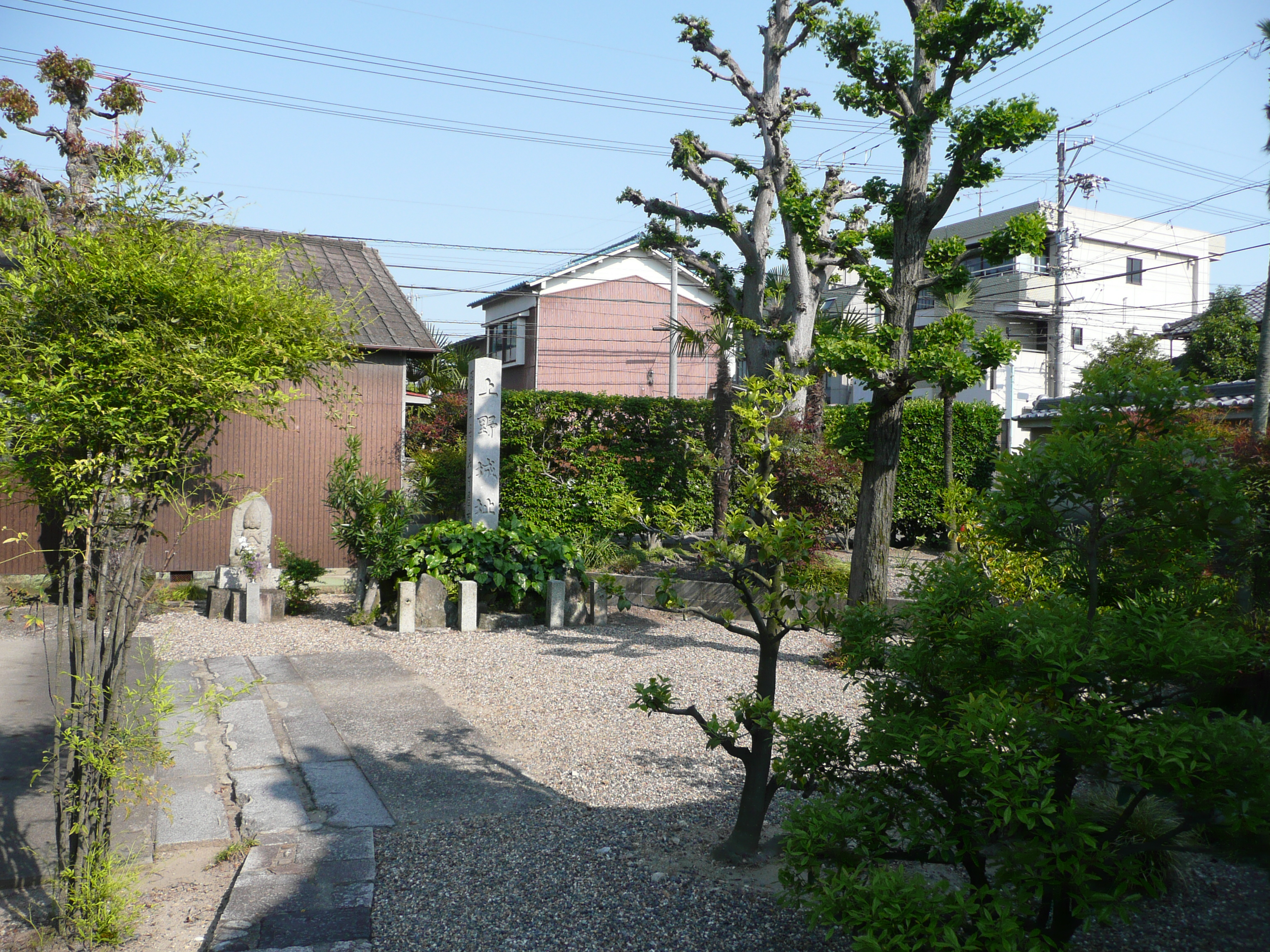 永弘院にある石碑